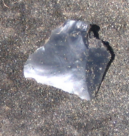 stone tool chip